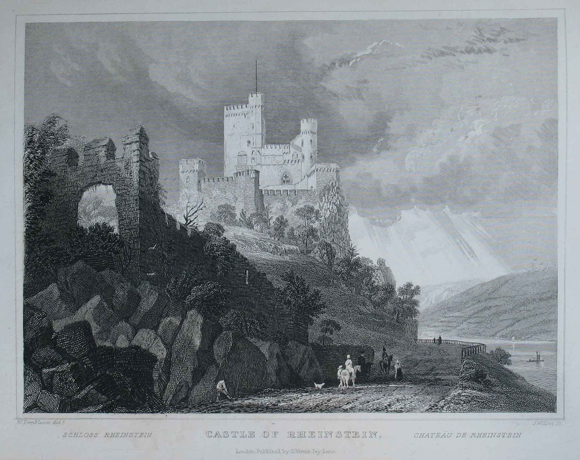 Steel engraving from "Views of the Rhine" by William Tombleson (around 1840): Castle of Rheinstein